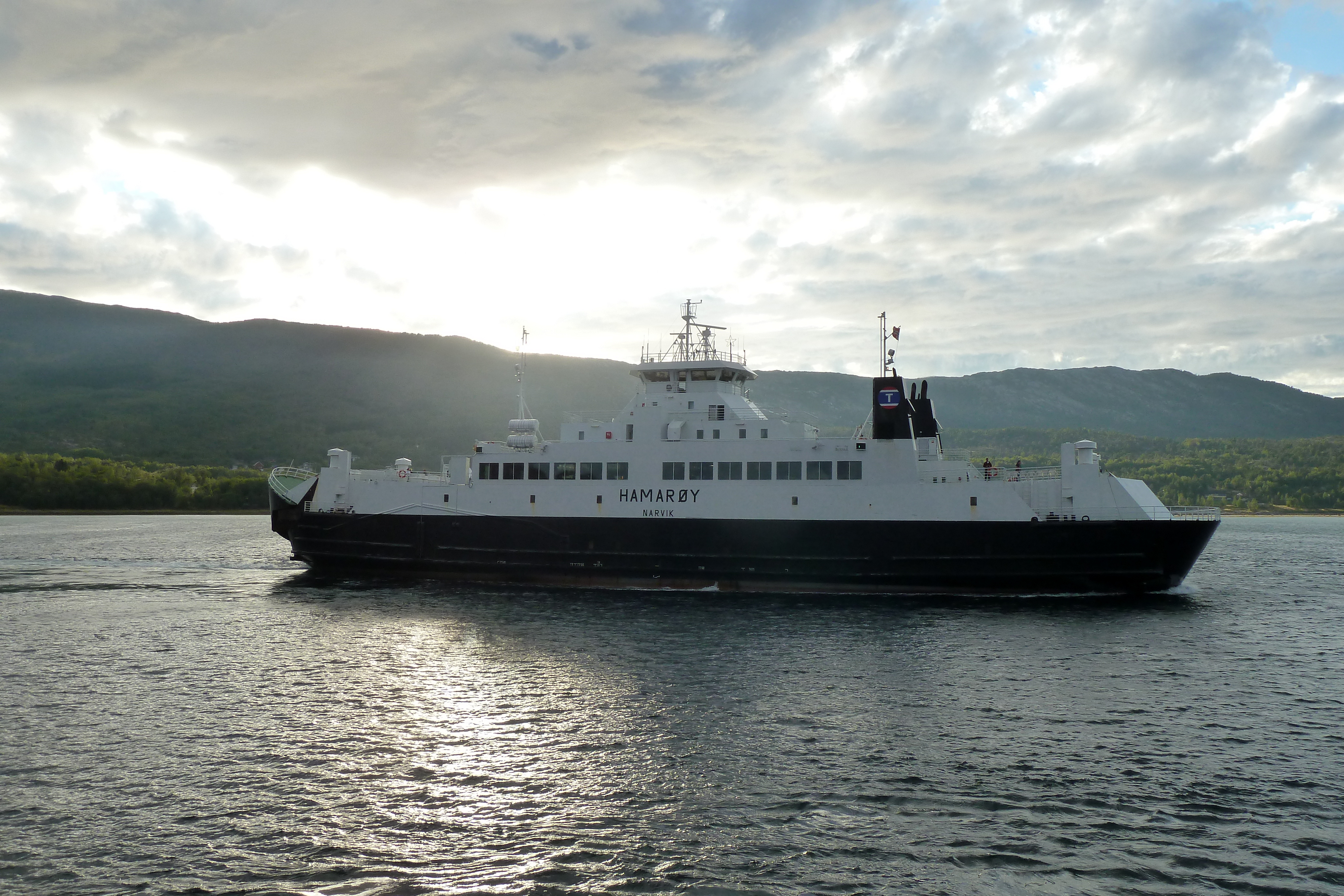 Ferry "Hamarøy" departing Bognes dock, heading for Lødingen.